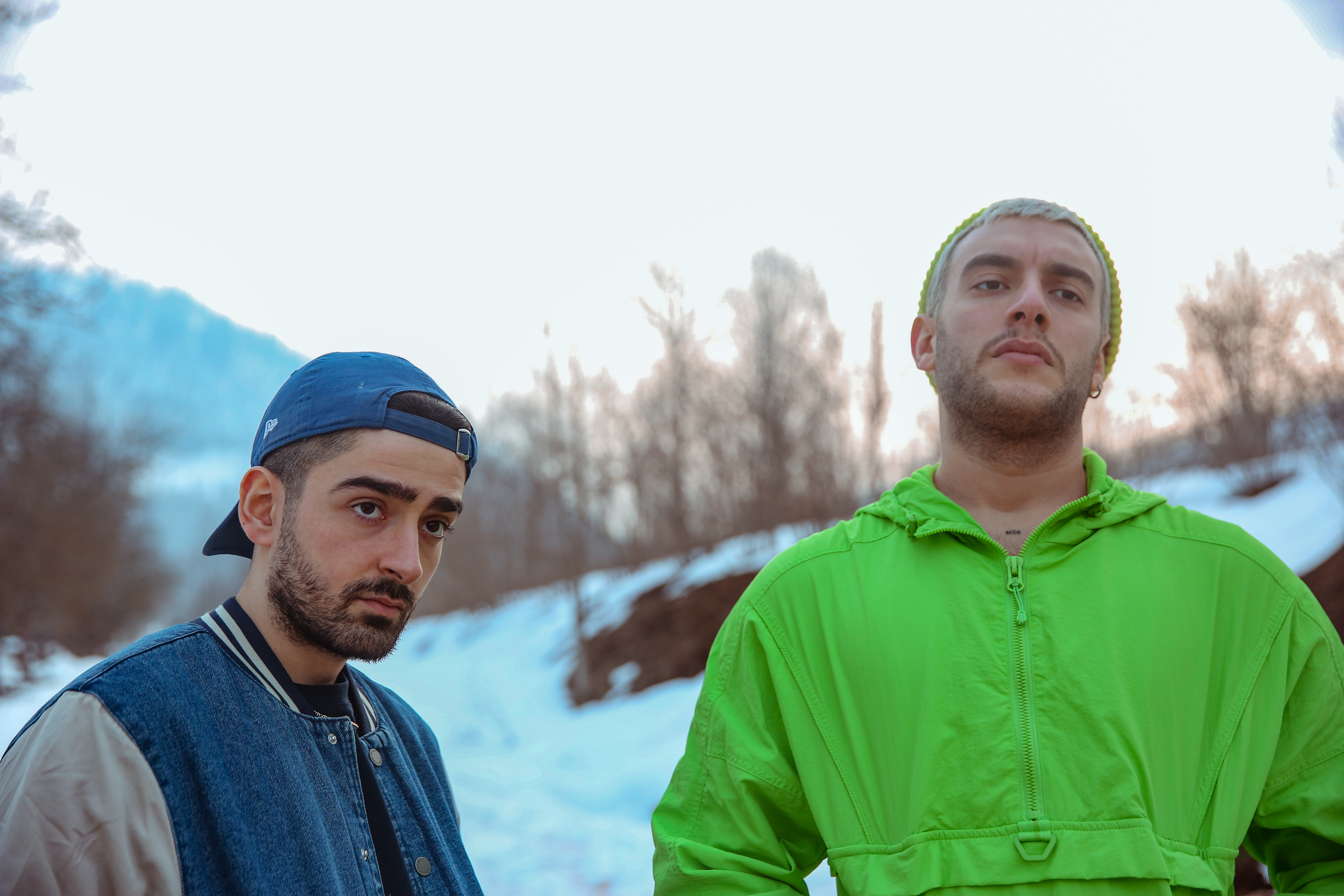 The band members of Dolu Kadehi Ters Tut; Mürsel Oğulcan Ava, Uğurhan Özay